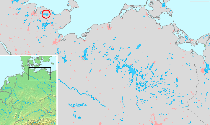 Locator maps of lakes in Germany : Location Selenter See.PNG